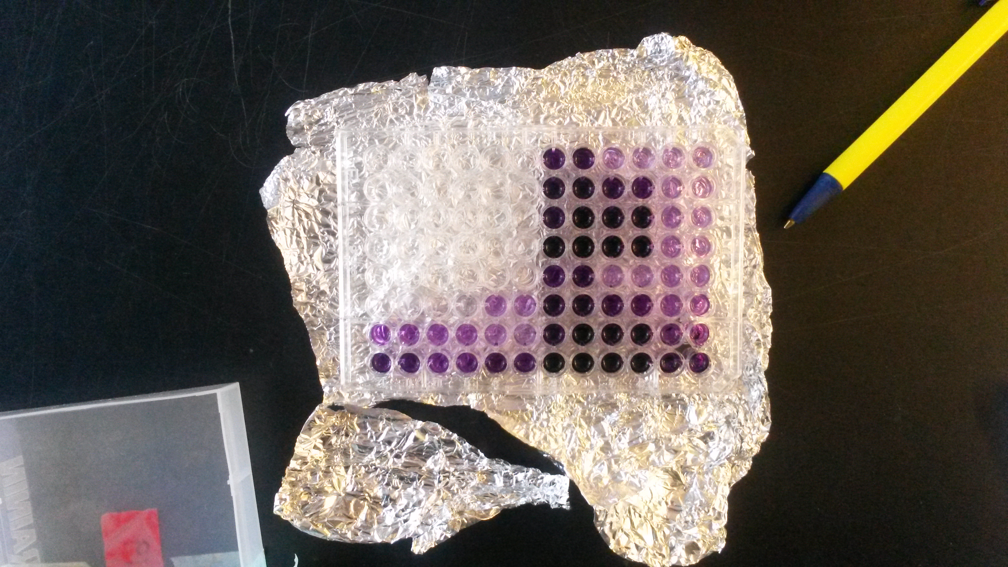 Measuring protein concentration with BCA assay